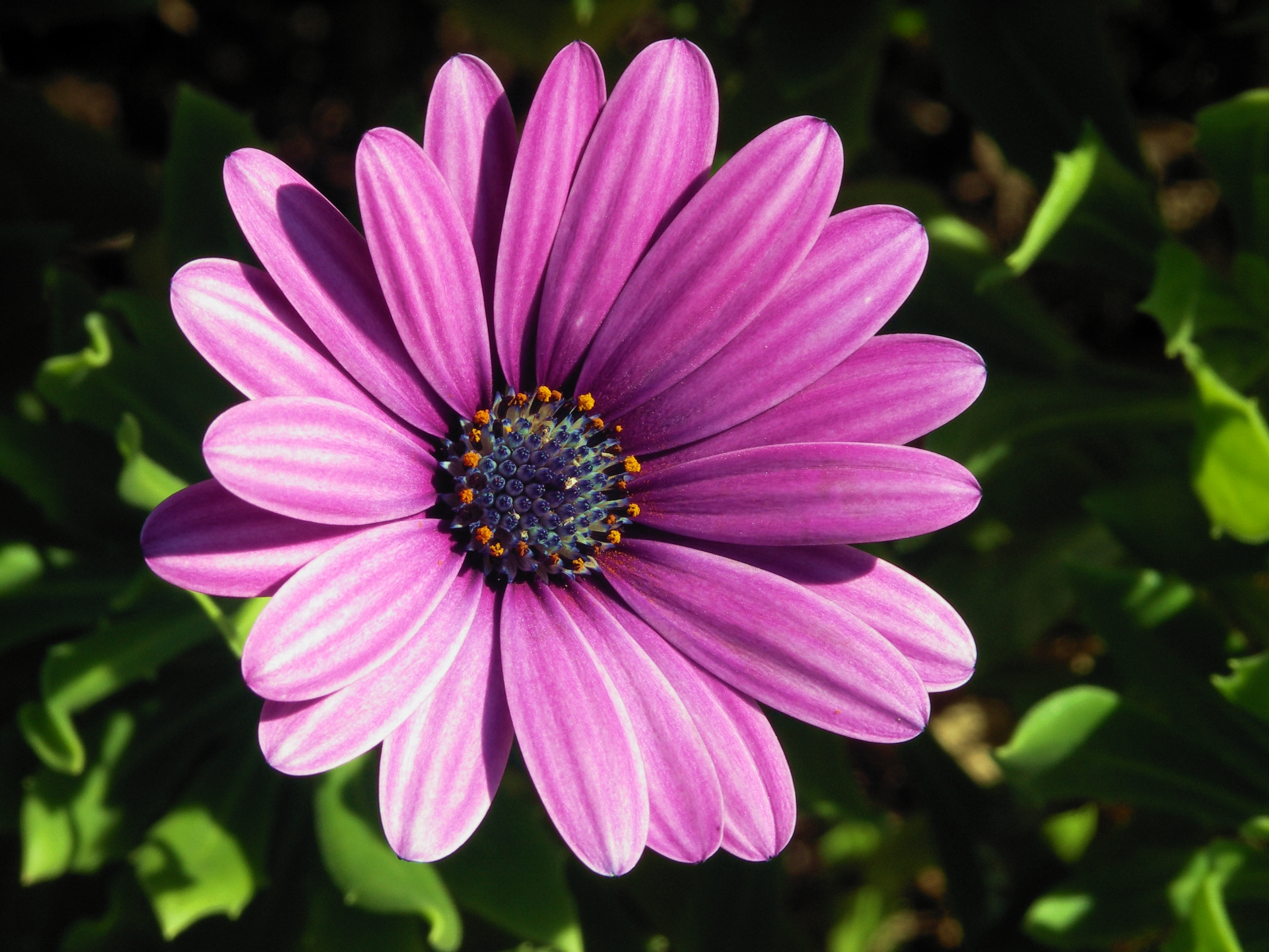 Flower genus Osteospermum (Osteospermum barberiae)